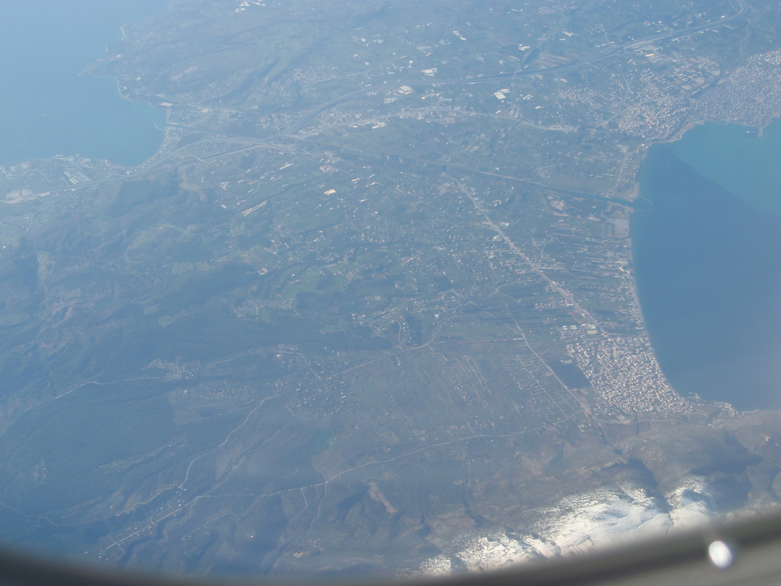 Aerial photography of the Corinth canal seen from north (February 2011)